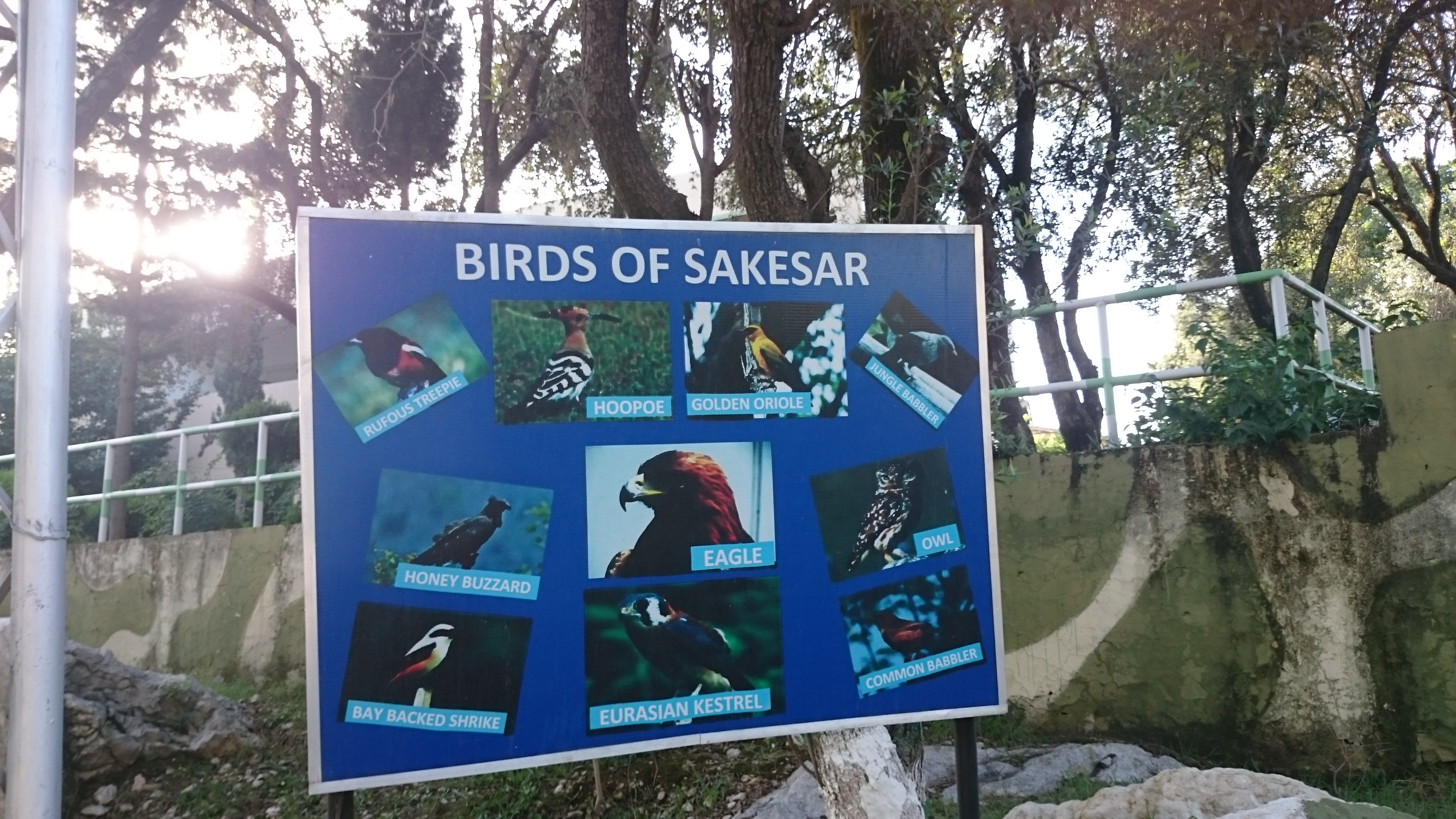 Upto 60 different species of birds are found in Sakesar